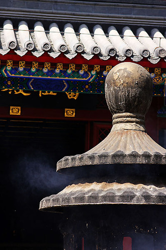 White Cloud Temple, Beijing. Photo: Fan Yang